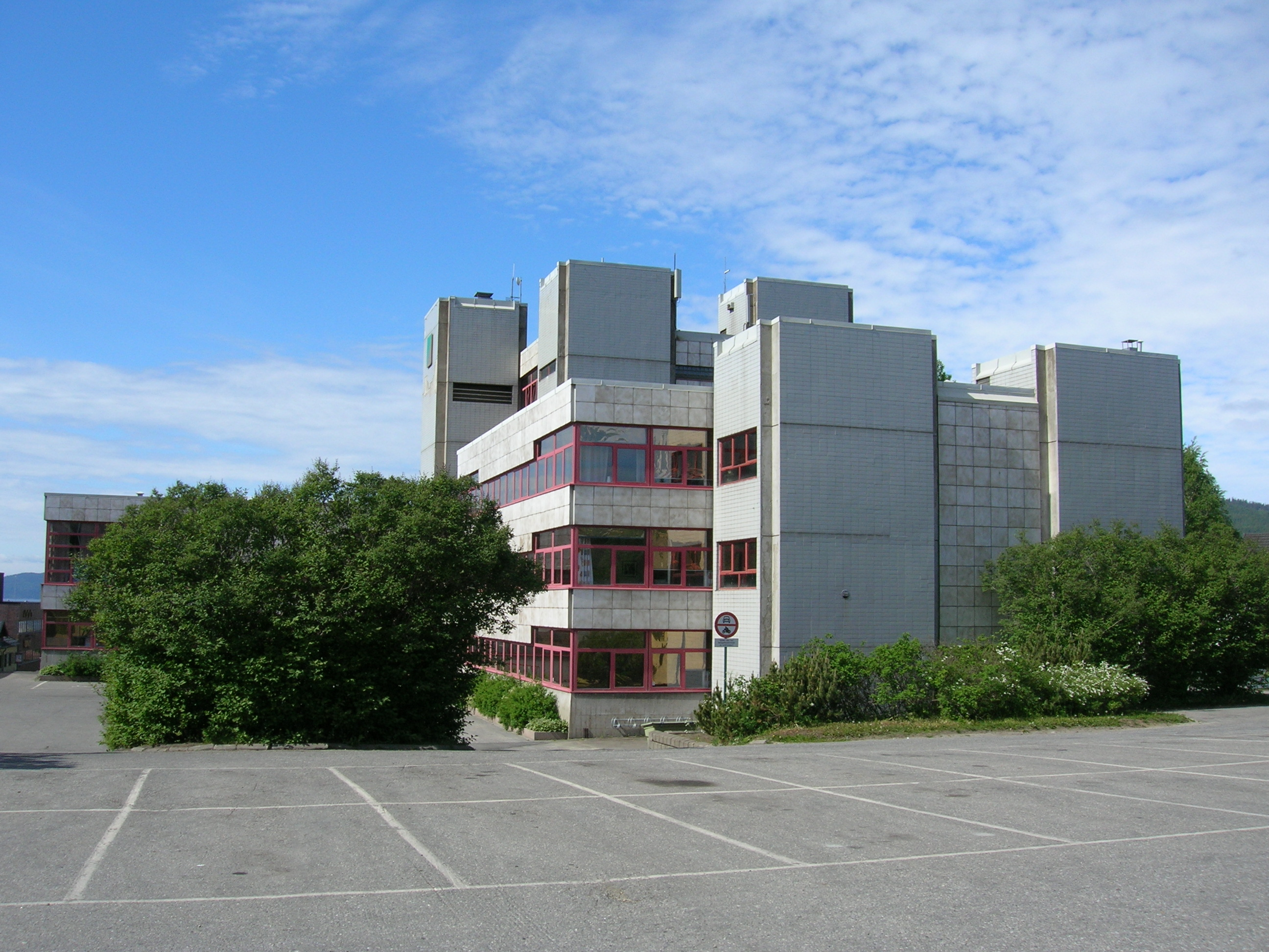 Rana city hall in Mo i Rana municipality, county of Nordland, Norway, Photo June 10, 2007 with a Nikon Coolpix 5600 5,1 Megapixel camera.